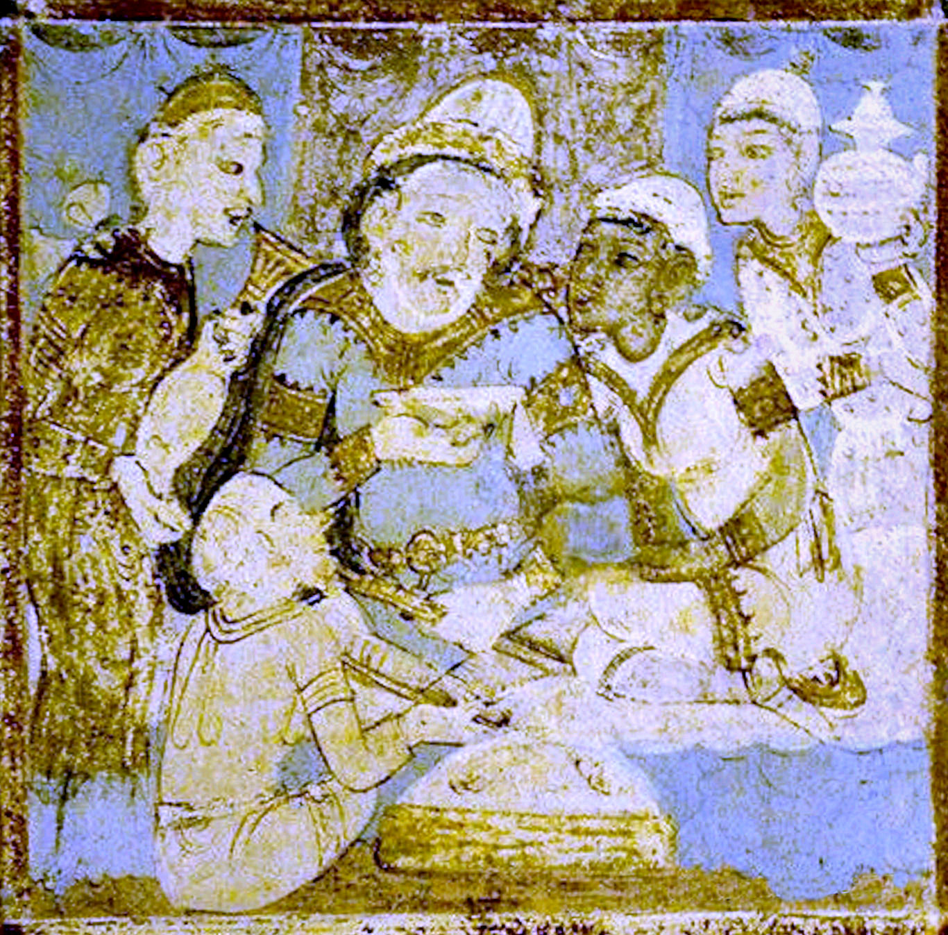 Ajanta Cave 1 Group of foreigners. Detail and rework of: Detail and rework of this file The scene appears on the ceiling of the hall of the cave, forward left towards the shrine. Location of second Persian group on the ceiling of Cave 1 in Ajanta (red square).